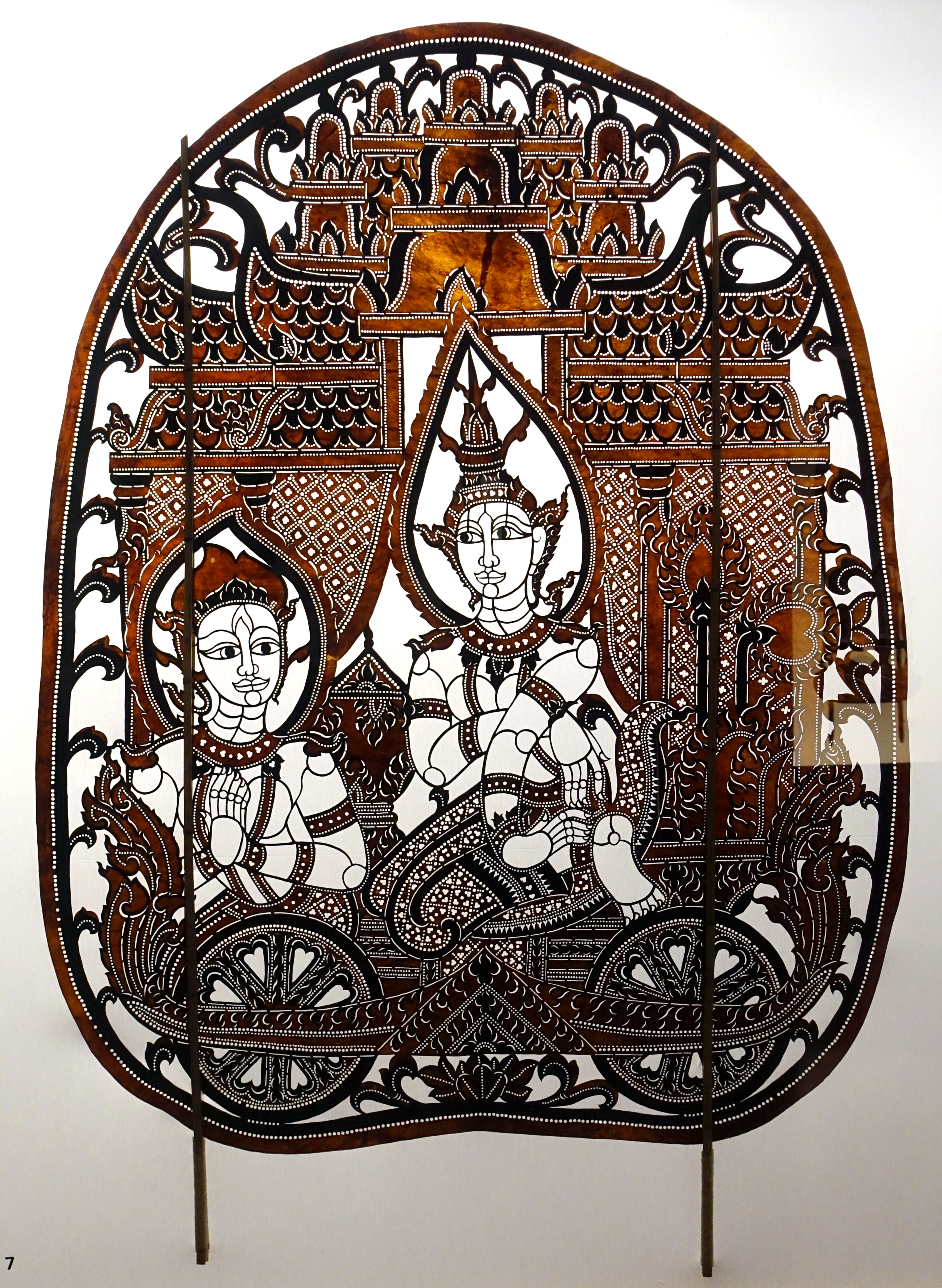 Exhibit in the Museu do Oriente - Lisbon, Portugal. This work is old enough so that it is in the public domain.